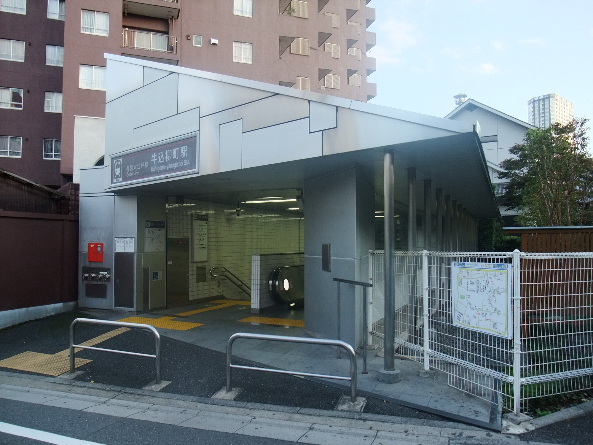 The west entrance to Ushigome-yanagicho Station on the Toei Oedo Line in Shinjuku, Tokyo